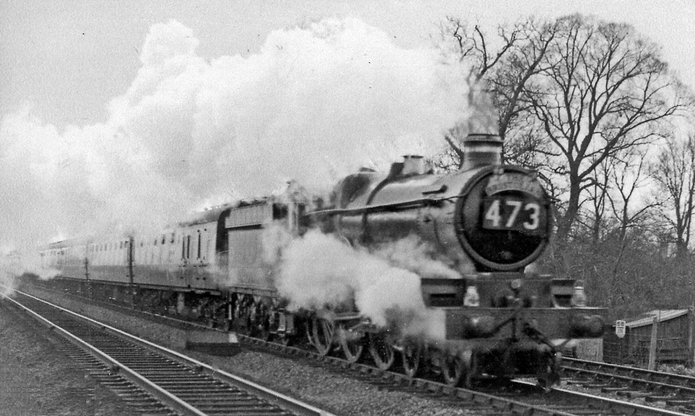 Up 'Bristolian' approaching Steventon at high speed. View westward on the ex-GW London - Reading - Swindon, Bristol etc. main line. By 1958 the 'Bristolian' had been accelerated to a non-stop schedule for the 117½ miles (via Badminton) of 105 minutes, so at Steventon at about 17.00, having left Temple Meads at 16.15, it is thundering along at well over 80 mph. and due at Paddington at 18.00. The locomotive is Collett-design 4-6-0 No. 7015 'Carn Brea Castle' (built 7/48, withdrawn 4